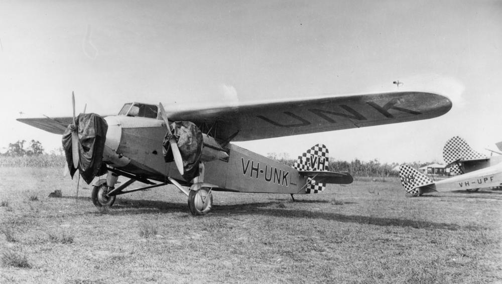 Star of Cairns, an Avro 619 Five, VH-UNK, ca. 1930. Star of Cairns crashed on 31 December 1930. (Decscription supplied with photograph).